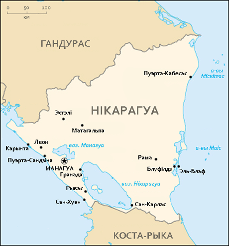 Map of Nicaragua in Belarusian